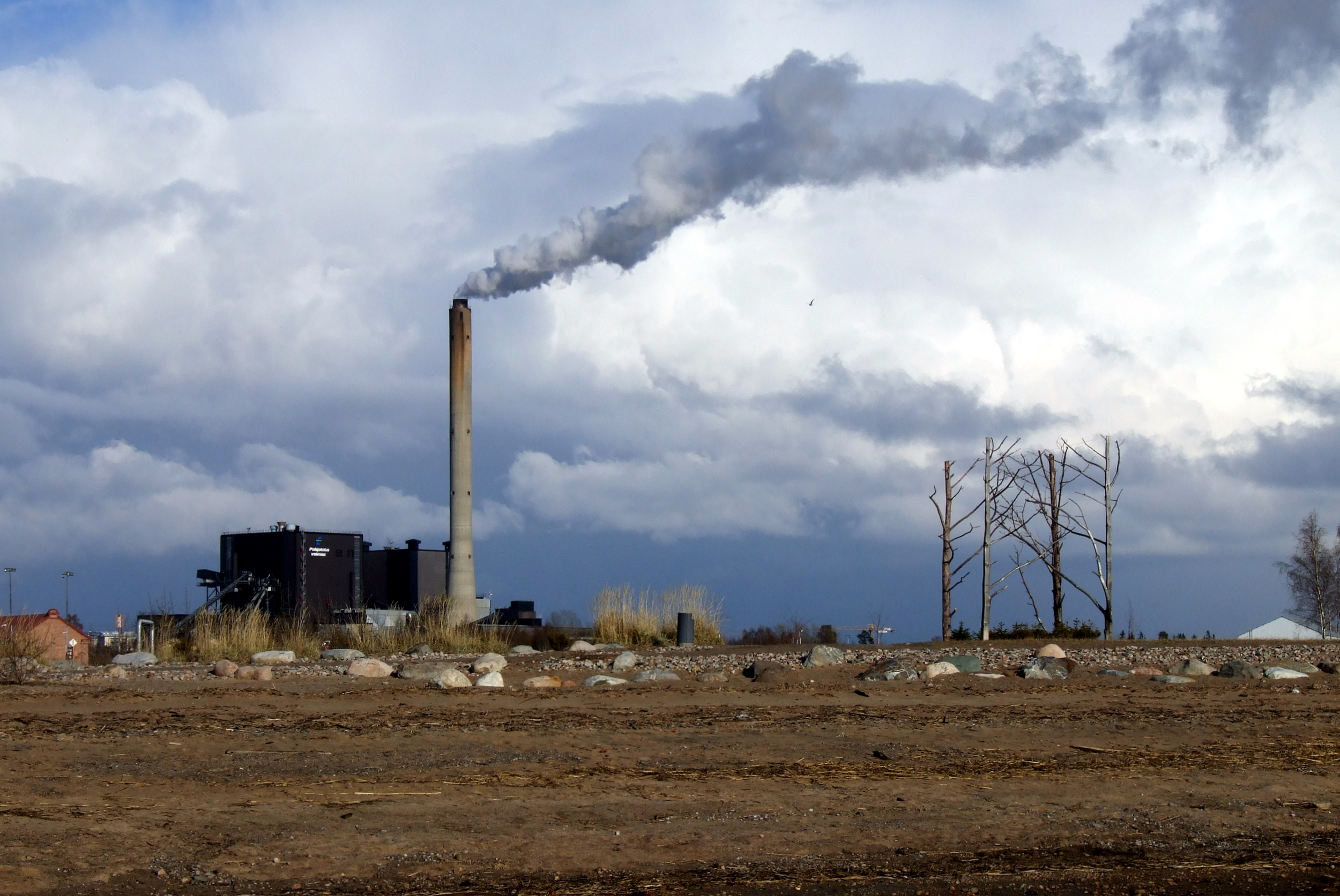 Toppila Peat-Fired Power Plant seen from Toppilansaari.